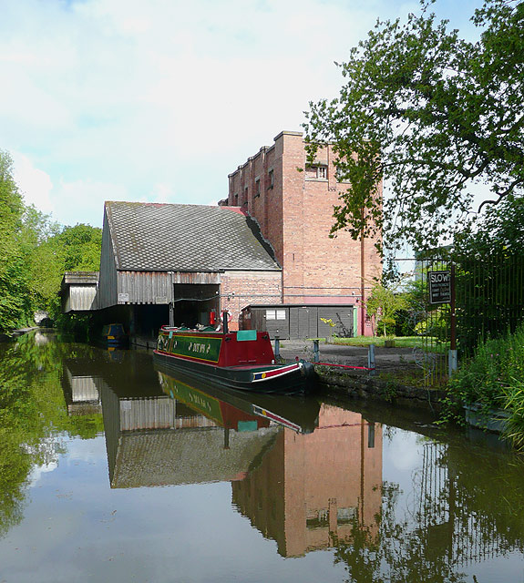 Cadbury Wharf, Knighton, Staffordshire. This building and the wharf were operated by Cadbury's between 1911 and 1961 to process locally collected milk and produce "chocolate crumb" which was transported to Cadbury's in Bourneville (Birmingham) along the Shropshire Union Canal.